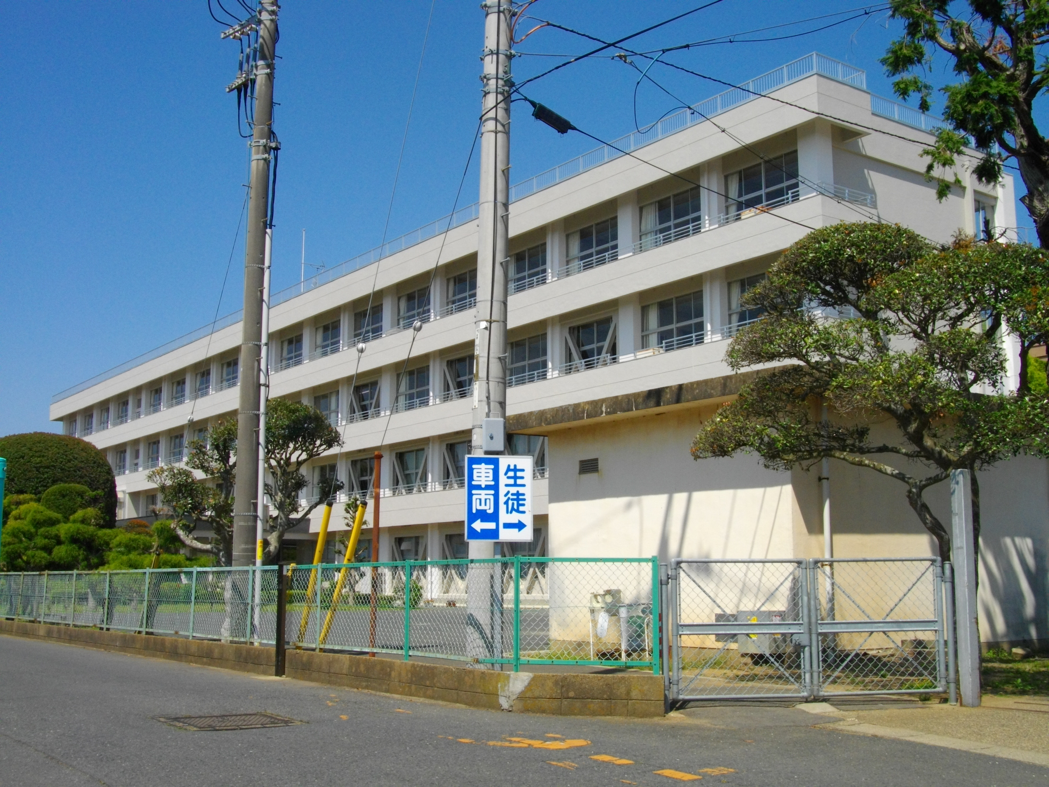 Ibaraki Prefectural Kashima High School